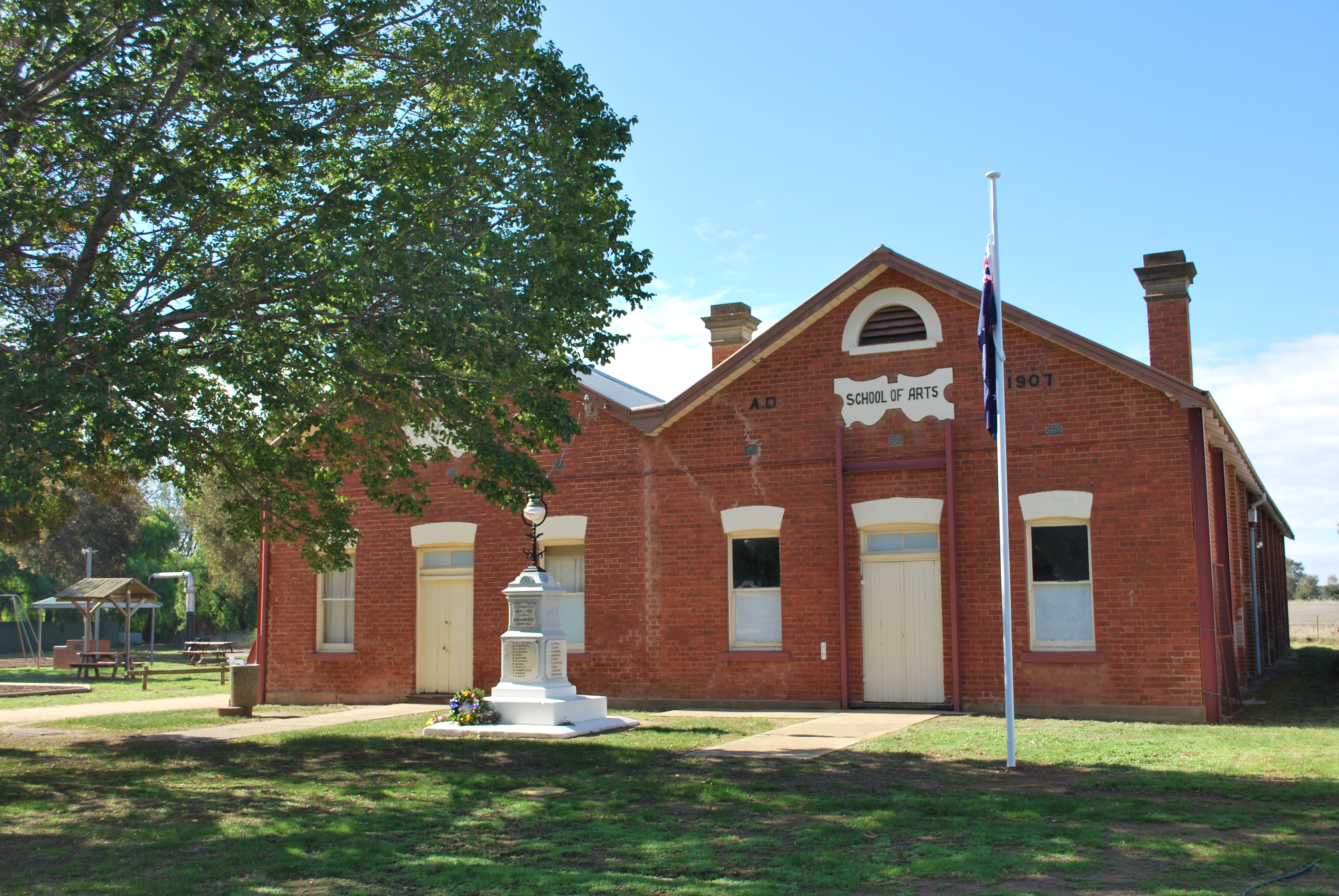 School of Arts hall at Brocklesby, New South Wales